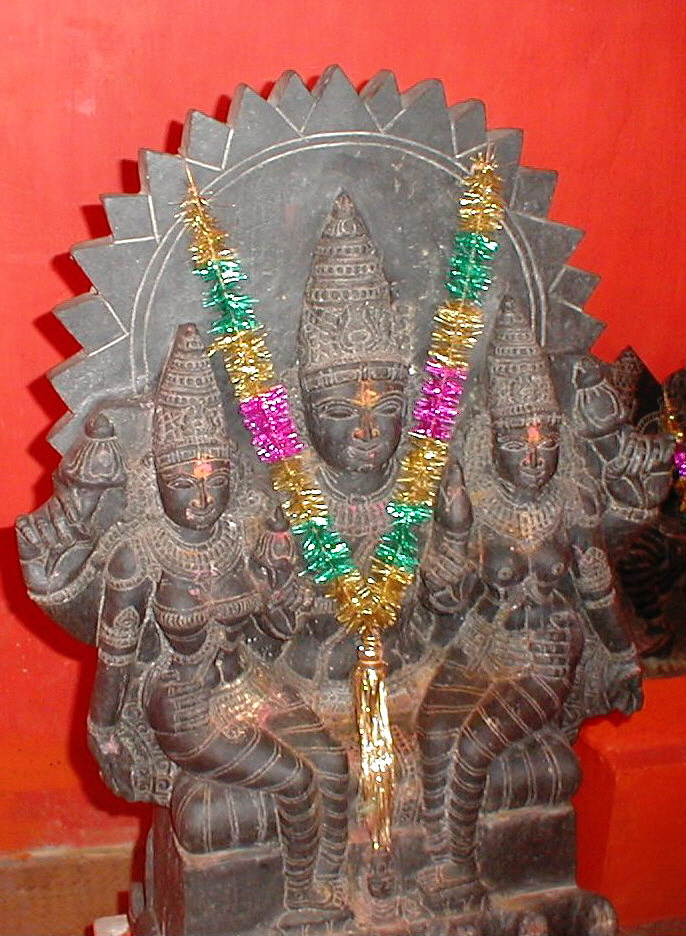 Surendrapuri Temple's Navagraha Temples, Surya with consorts Saranyu and Chhaya